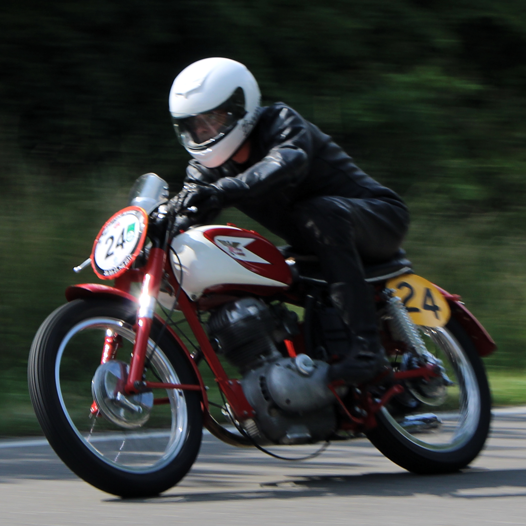 Moto Morini Settebello 175 (1955) at Solitude Revival 2019